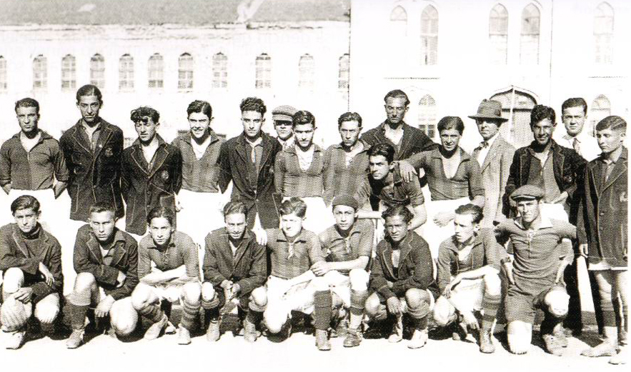 Galatasaray and Fenerbahçe squads before a match in 1924-25 season.